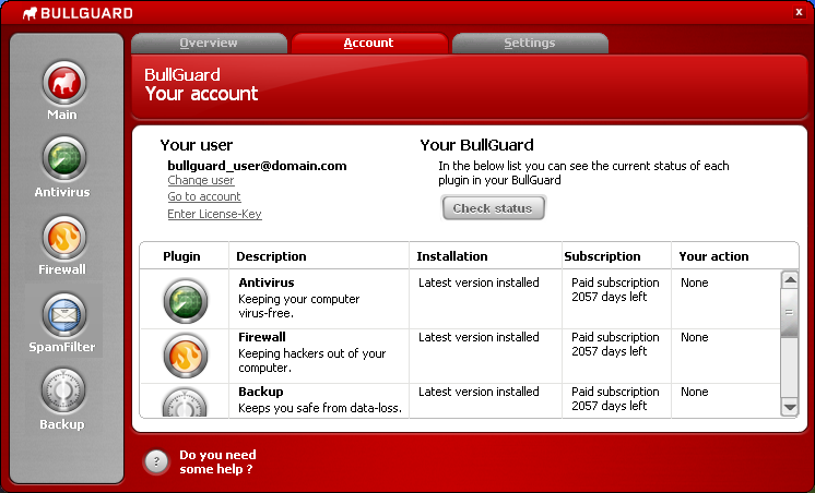 Illustrate article and identify the subject of the image that is critically discussed by the article.